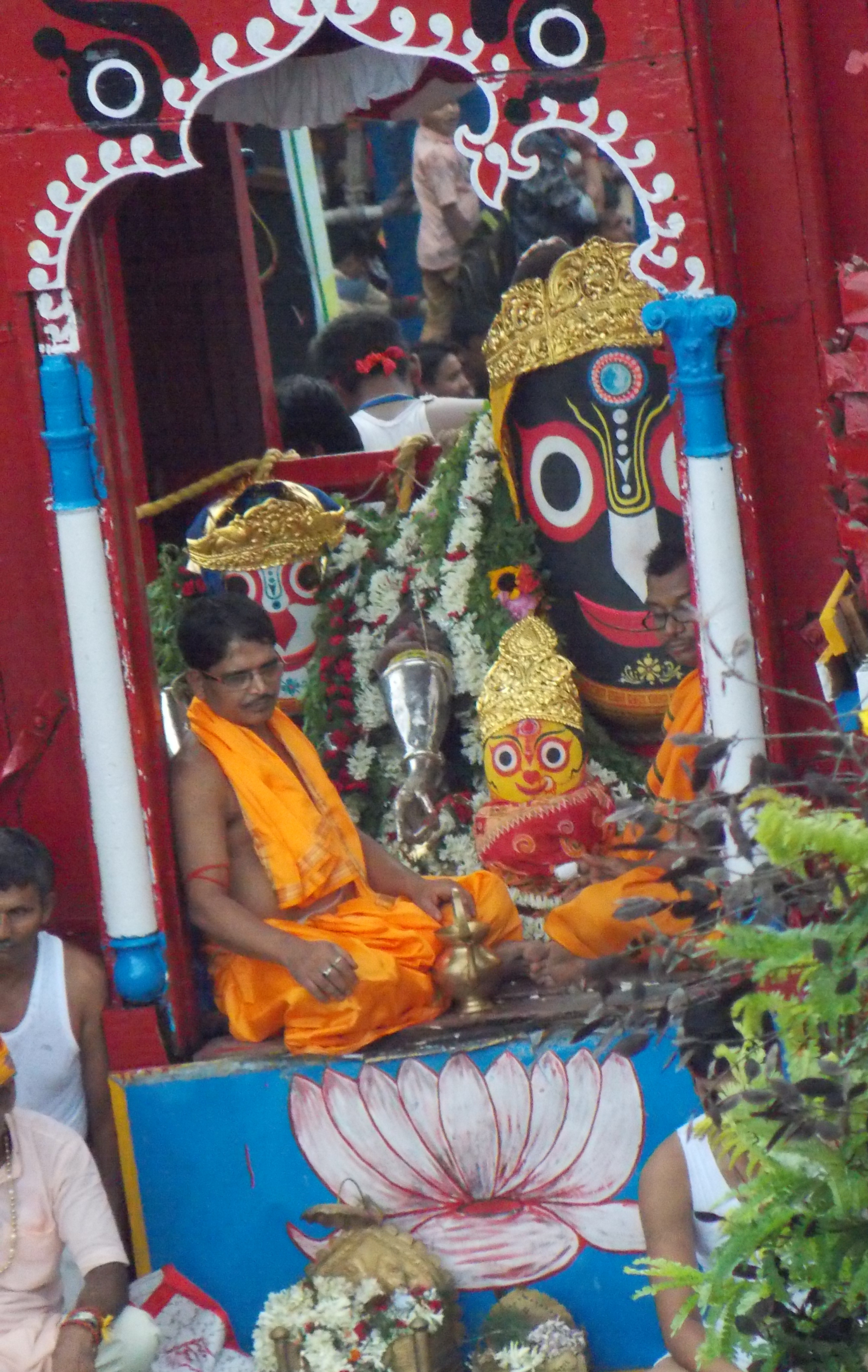 Rathayatra of Mahesh) ভারতের দ্বিতীয় প্রাচীনতম এবং বাংলার প্রাচীনতম রথযাত্রা উৎসব। এই উৎসব ১৩৯৬ খ্রিস্টাব্দ থেকে অনুষ্ঠিত হয়ে আসছে। এটি পশ্চিমবঙ্গের শ্রীরামপুর শহরের মাহেশে হয়। রথযাত্রার সময় মাহেশে এক মাস ধরে মেলা চলে। শ্রীরামপুরের মাহেশ জগন্নাথ দেবের মূল মন্দির থেকে মাহেশেরই গুন্ডিচা মন্দির (মাসীরবাড়ী) অবধি জগন্নাথ, বলরাম ও সুভদ্রার বিশাল রথটি টেনে নিয়ে যাওয়া হয়। উল্টোরথের দিন আবার রথটিকে জগন্নাথ মন্দিরে ফিরিয়ে আনা হয়।